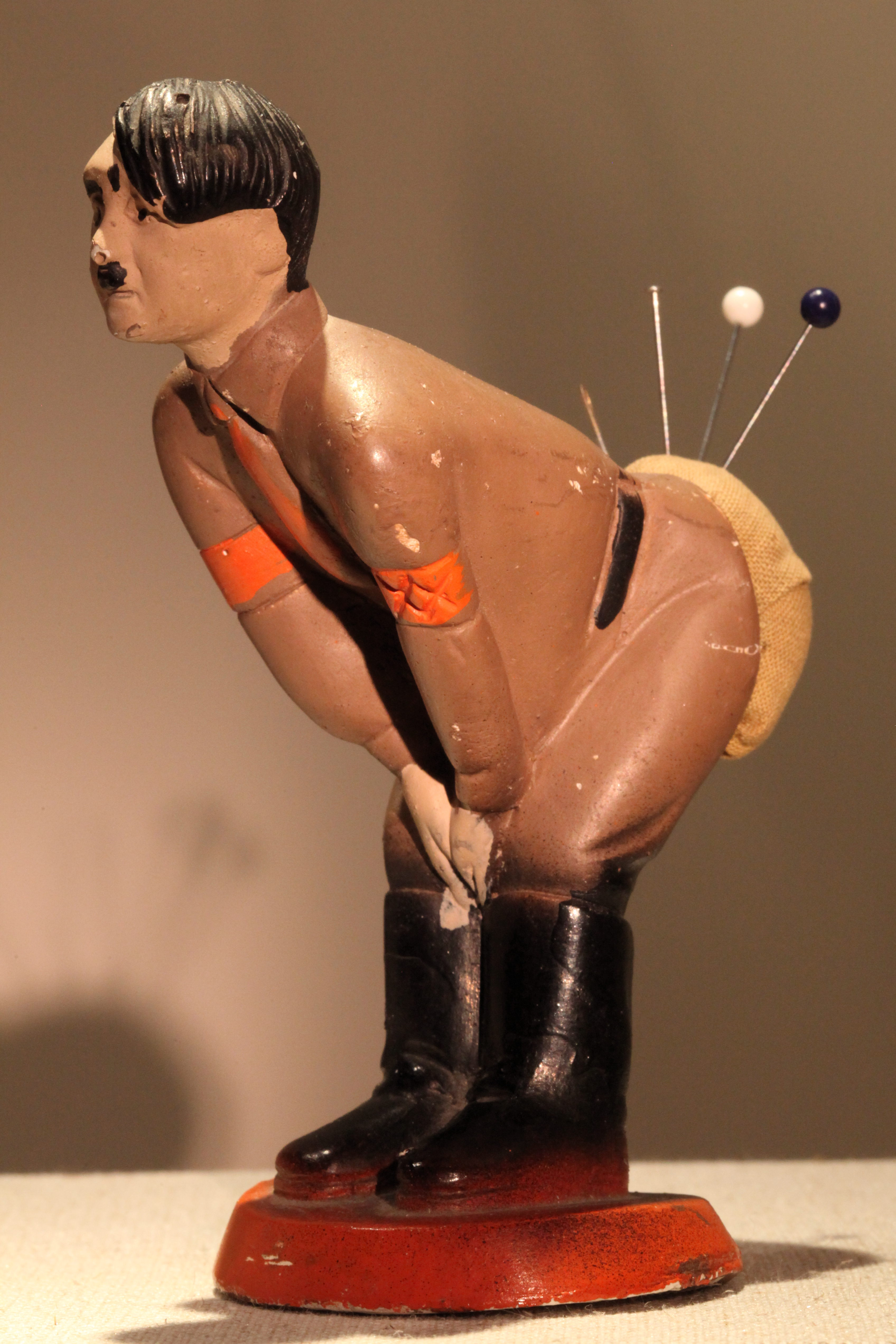 Hitler pincushion, USA, circa 1941. Paint, plaster and cotton. On display at Spurlock museum, Urbana-Champaign